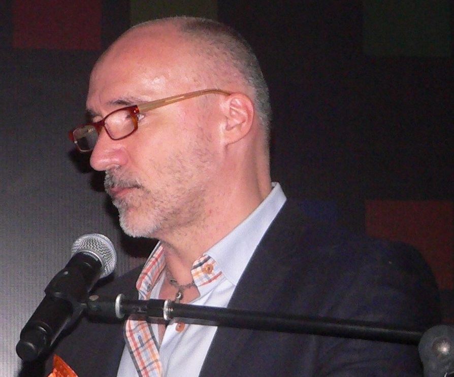 British-American concept designer Neville Page at the 2014 Comic Con Experience in São Paulo, Brasil